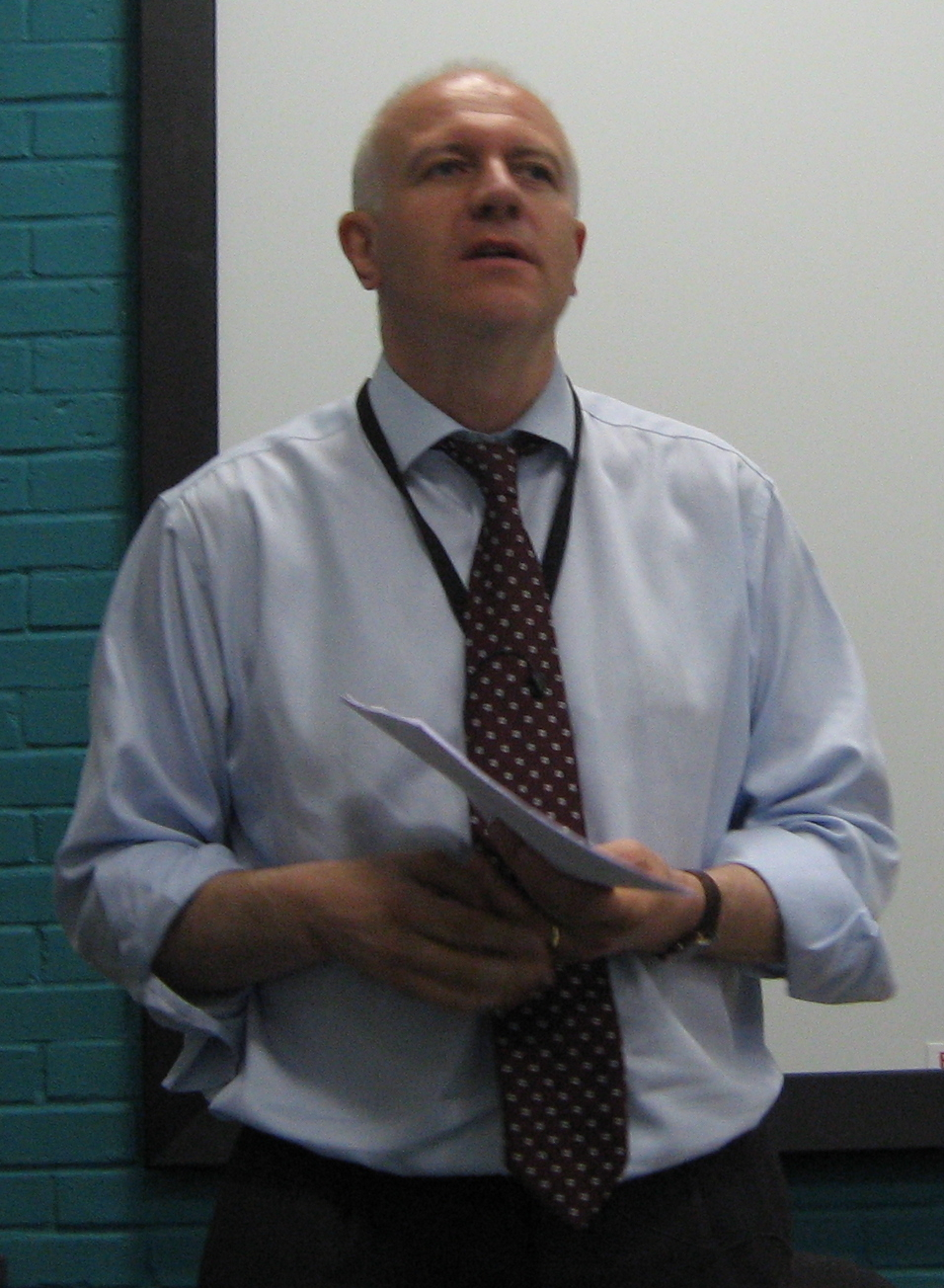 Bill Rammell MP speaking in Oxford.